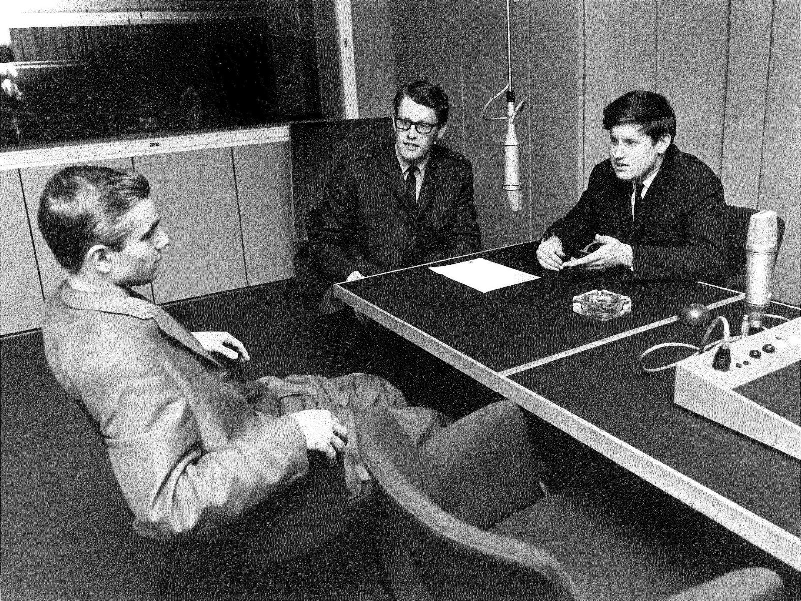 Photograph of the Russian pianist Grigory Sokolov (1950–) during his visit to Finland. To the left, the Russian violinist Viktor Tretiakov (1946–). In the middle, the Finnish music journalist of Yleisradio, Hannu Heikinheimo.